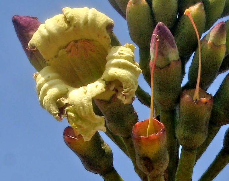 Oroxylum indicum (Syn. Bignonia indica, Calosanthes indica)- Broken bones tree, Tree of Damocles, Indian Trumpet Flower, Sonpatha, Midnight horror • Hindi: भूत वृक्ष bhut-vriksha, दीर्घवृन्त dirghavrinta, कुटन्नट kutannat, मण्डूक manduk (the flower), पत्रोर्ण patrorna, पूतिवृक्ष putivriksha, शल्लक shallaka, शूरण shuran, सोन or शोण son, वटुक vatuk • Manipuri: শম্বা Shamba • Marathi: टायिटू tayitu, टेटु tetu • Tamil: சொரிகொன்றை cori-konnai, பாலையுடைச்சி palai-y-utaicci, பூதபுஷ்பம் puta-puspam (the flower) • Malayalam: പലകപയ്യാനി palaqapayyani, വാശ്പ്പാതിരി vashrppathiri, വെള്ളപ്പാതിരി vellappathiri • Telugu: మండూకపర్ణము manduka-parnamu, పంపెన pampena, శూకనాసము suka-nasamu, తుందిలము tundilamu • Kannada: ತಟ್ಟುನ tattuna • Konkani: davamadak • Bengali: সোনা sona • Oriya: टटेलों tatelo • Assamese: তোগুনা Toguna • Sanskrit: अरलु aralu, श्योनक shyonaka - in Herbal Garden, in Rangareddy district of Andhra Pradesh, India.